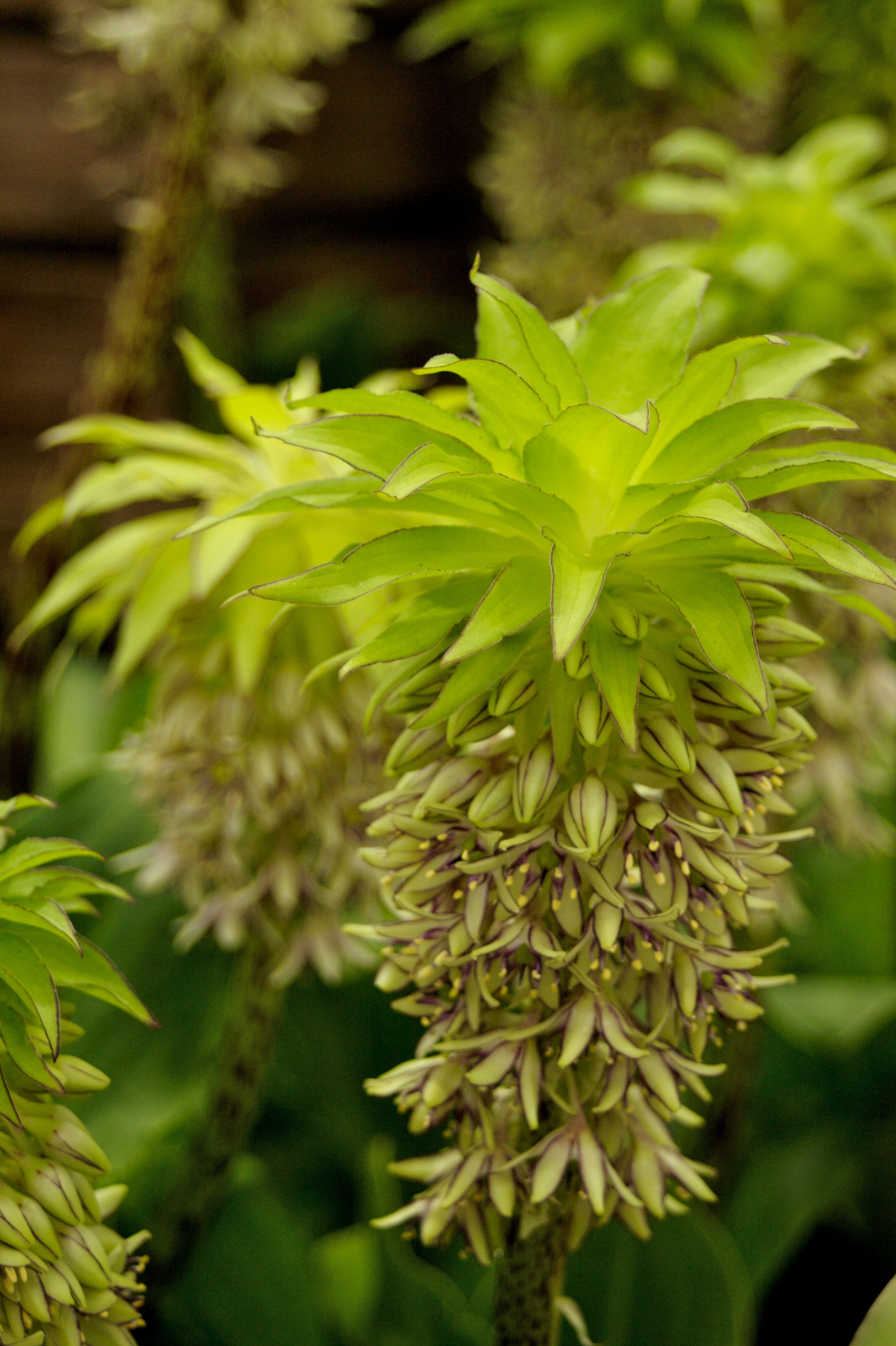 Eucomis bicolor. Taken during Tatton Park Flower Show 2009